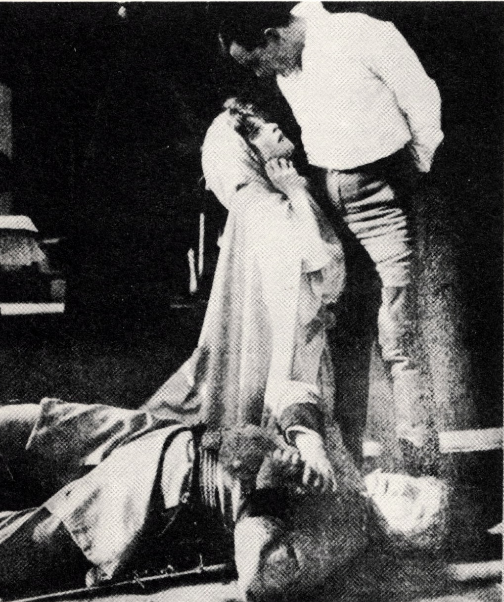 The Heart of Maryland is a lost 1915 silent film drama directed by Herbert Brenon based on David Belasco's play The Heart of Maryland. This is a scene from the film.